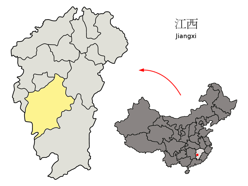 Location of Ji'an Prefecture (yellow) within Jiangxi Province of China Map drawn in december 2007 using various sources, mainly : Jiangxi Province administrative regions GIS data: 1:1M, County level, 1990 Jiangxi Counties map from